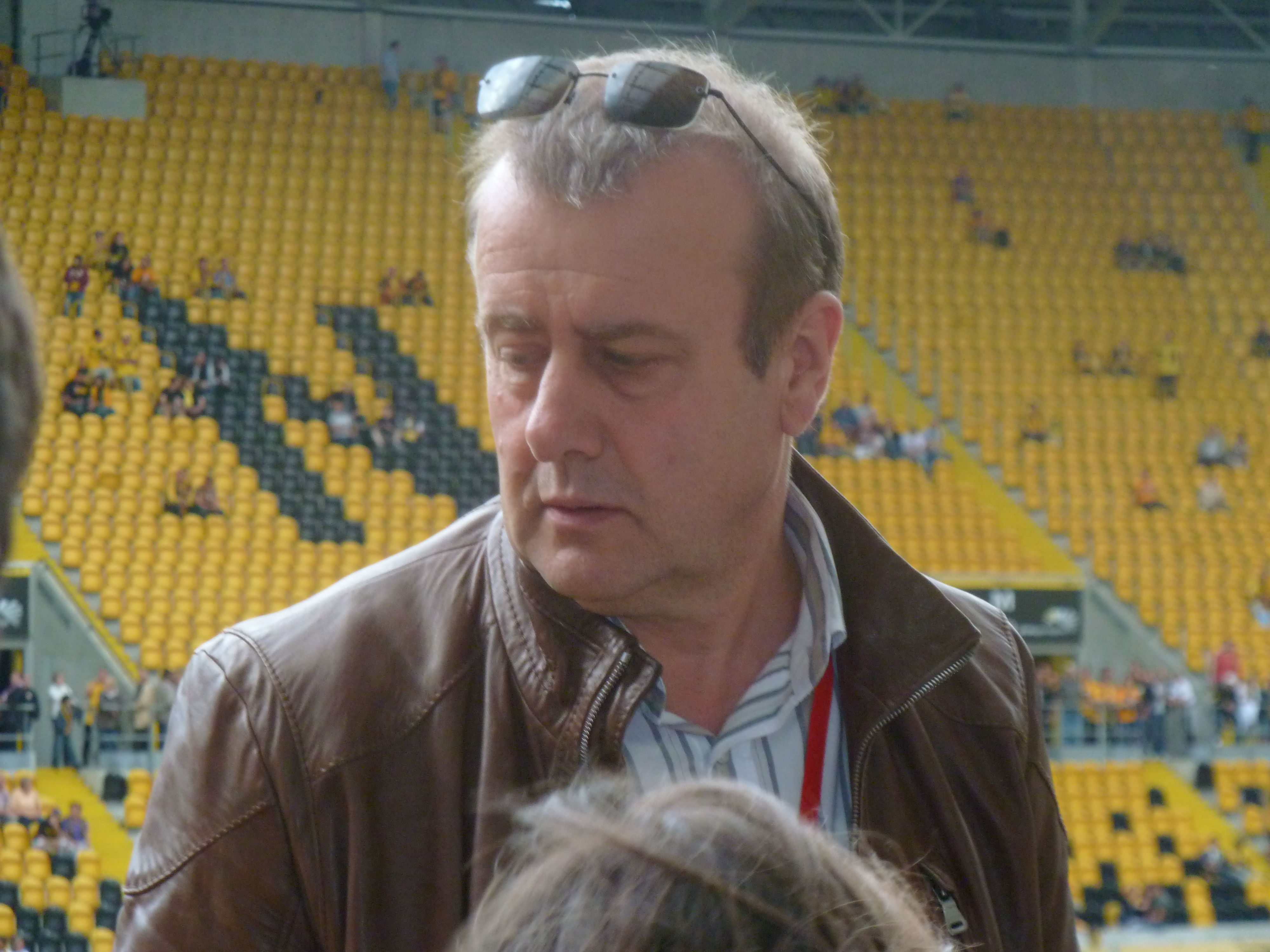 Andreas Ritter, President of Dynamo Dresden Football Club since 2010